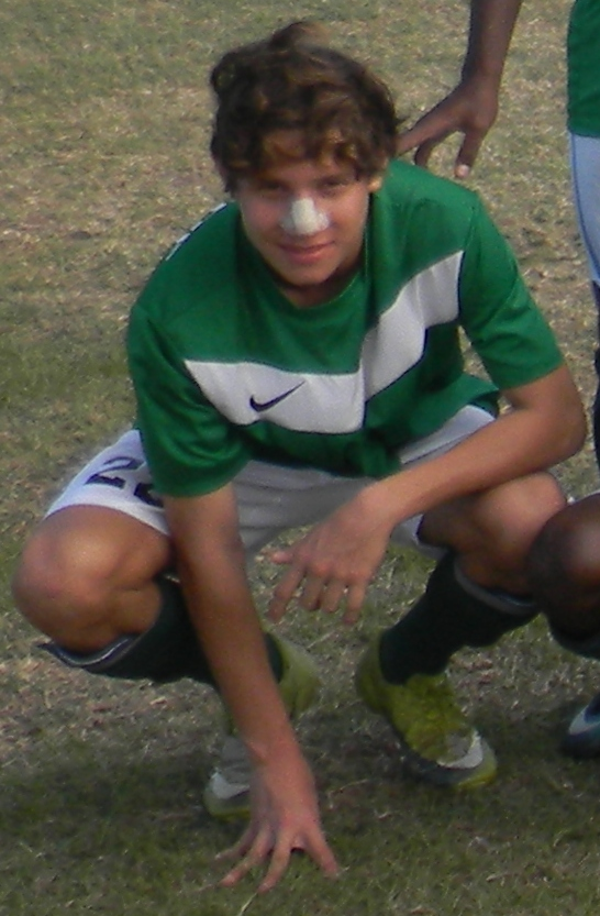 David Browne, Papua New Guinea footballer in 2011